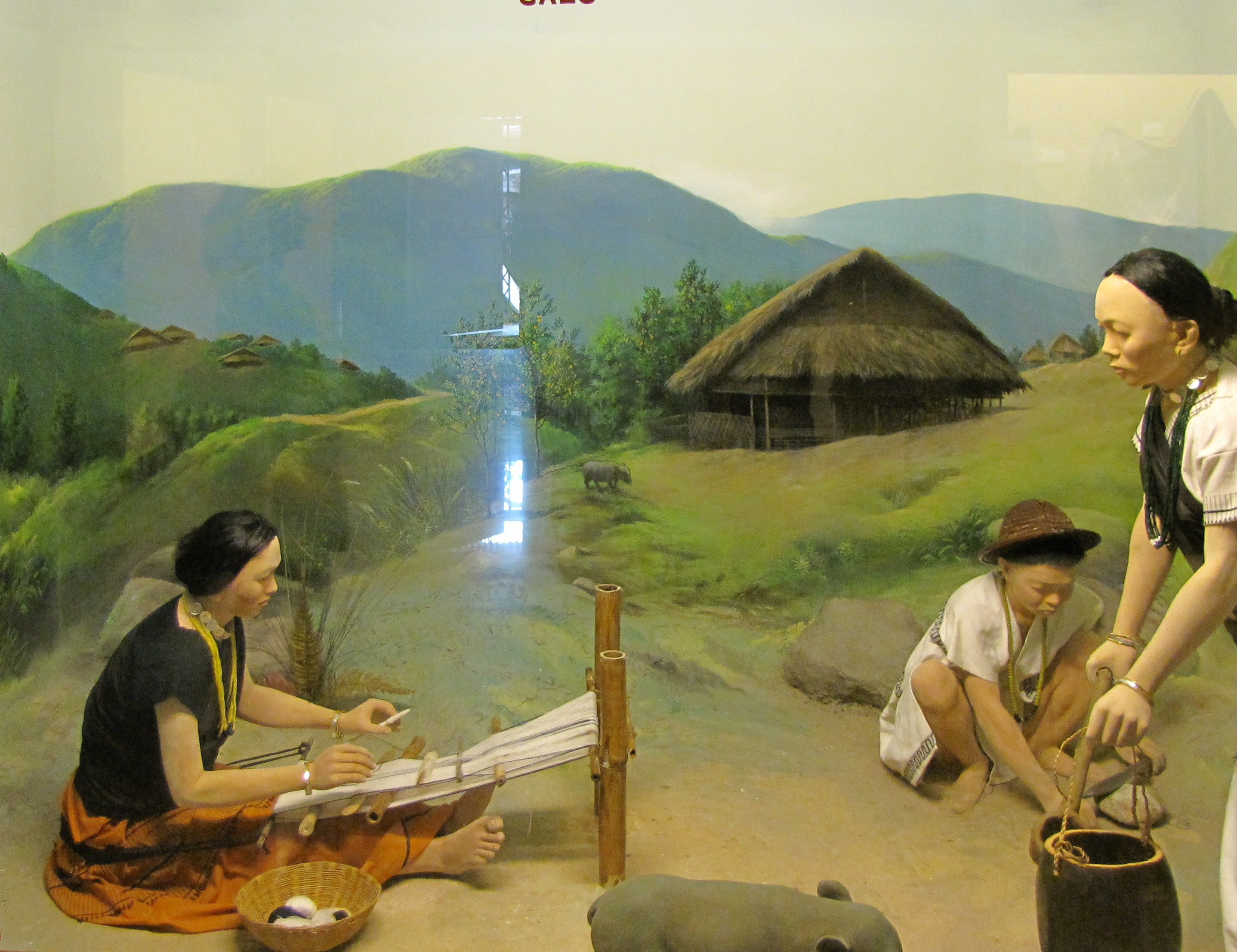 Diorama of Galo tribe at Jawaharlal Nehru Museum, Itanagar, Arunachal Pradesh, India.